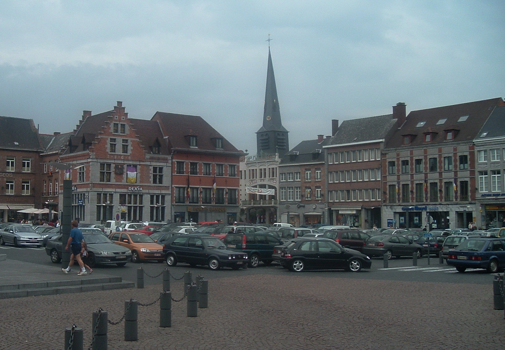 La Grand Place d'Ath